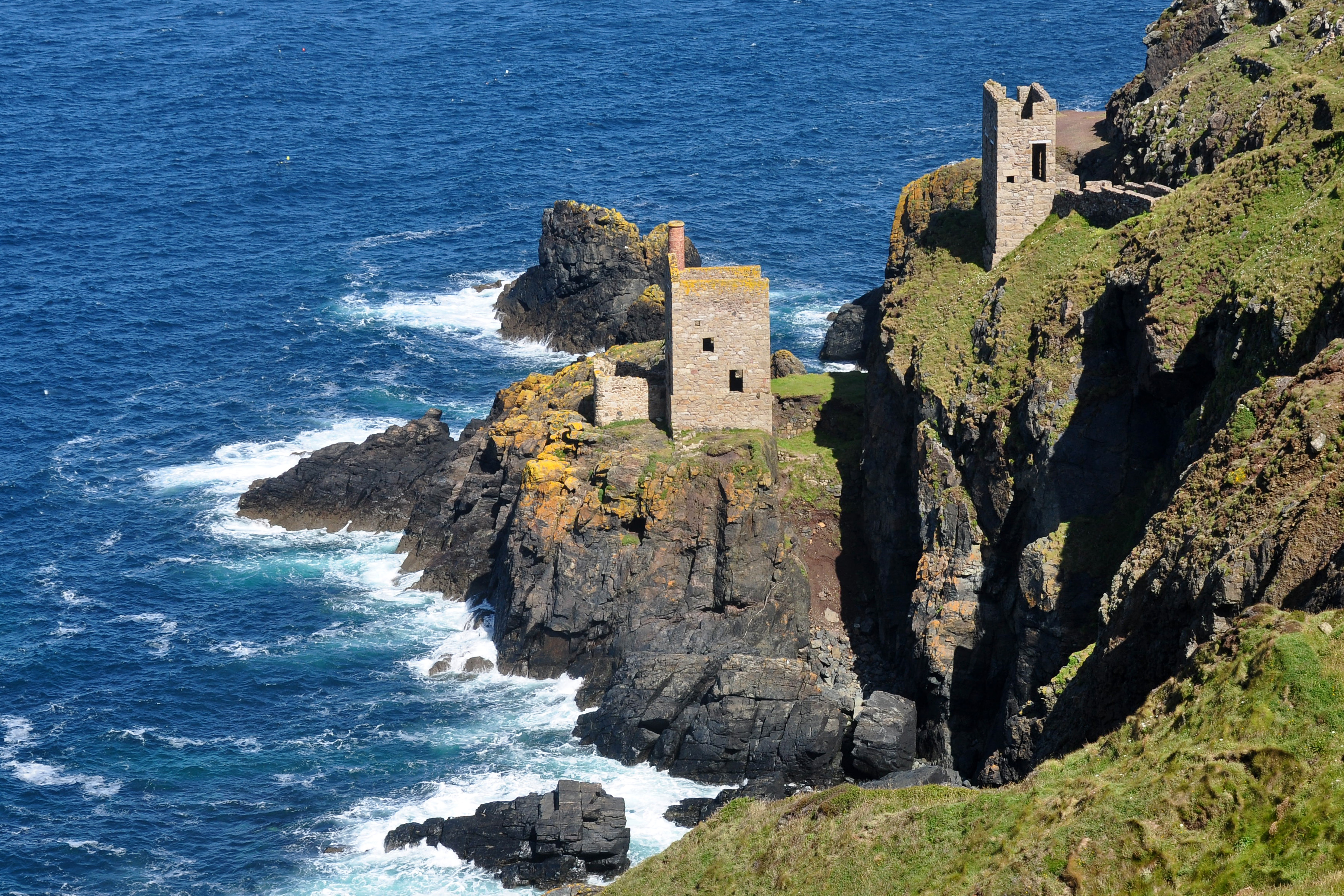 The disused Crowns Engine Houses, near Botallack, in western Cornwall.